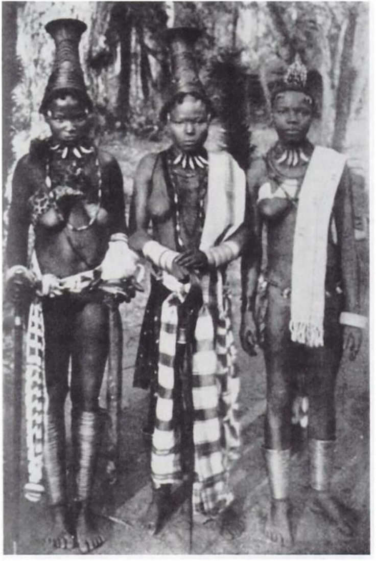 A picture of three Igbo women in the early 20th century